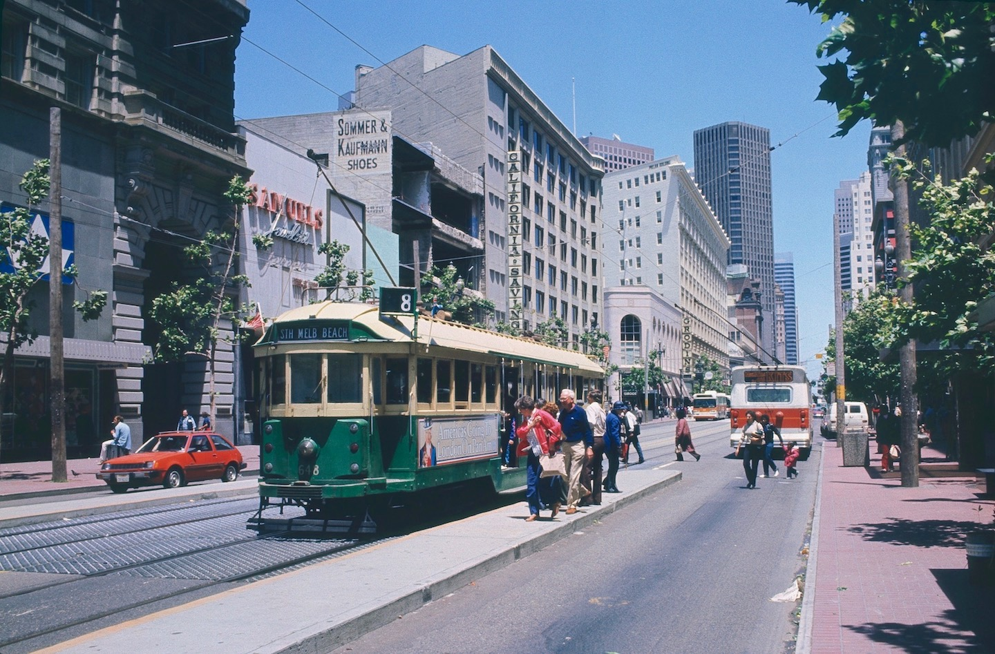 Ex-Melbourne tram (streetcar) 648 in service during the 1983 San Francisco Historic Trolley Festival, seen here inbound/eastbound on Market Street, loading at an island midway between Powell Street and Stockton Street. (This island has since been relocated to the east.) At right, a trolleybus (a Flyer E800 model) is also eastbound on Market Street.